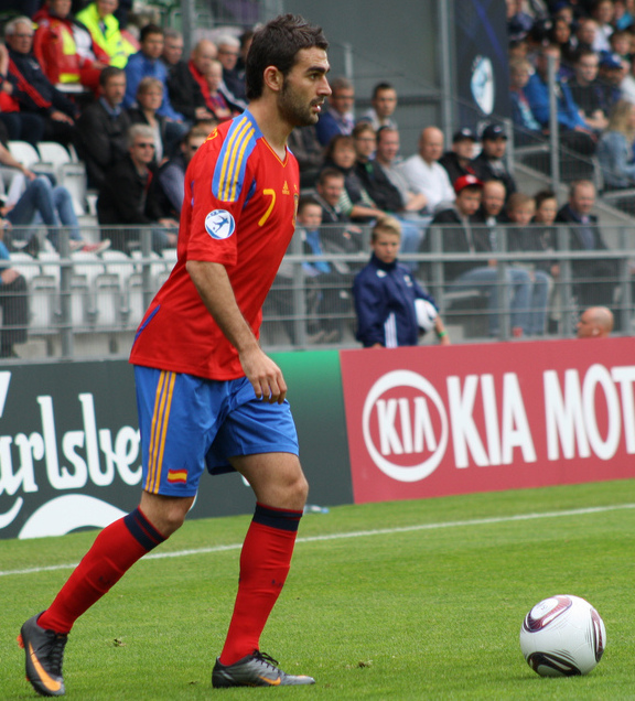 Adrián López Álvarez at the 2011 UEFA European U-21 Championship